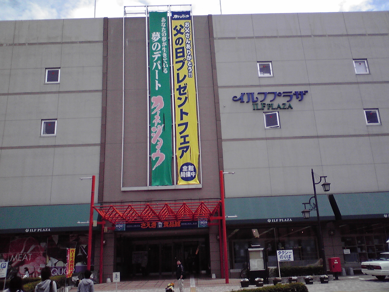 This is a shopping building in Japan.